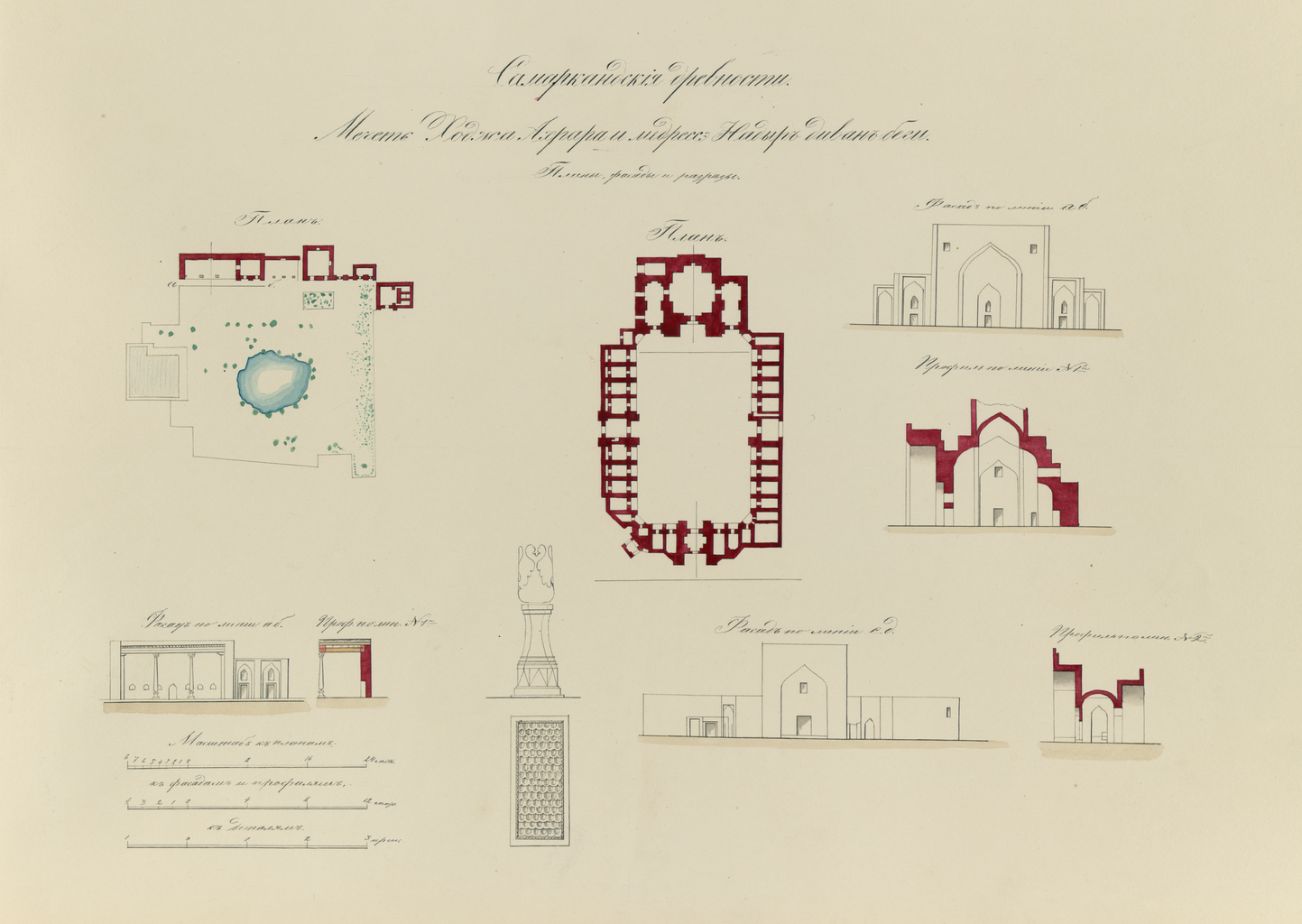 These plans, sections and elevations of the Khodzha Akhrar shrine in Samarkand (Uzbekistan), are from the archeological part of Turkestan Album. The six-volume photographic survey was produced in 1871-72 under the patronage of General Konstantin P. von Kaufman, the first governor-general (1867-82) of Turkestan, as the Russian Empire’s Central Asian territories were called. The album devotes special attention to Samarkand’s Islamic architectural heritage. On the upper left is the site plan for a group of structures dedicated to the memory of the renowned 15th-century mystic Khodzha Akhrar (1403-89). The main components are the winter and summer mosques with iwan (vaulted hall, walled on three sides, with one end open) arches whose wooden columns rest on carved marble bases (shown here as a detail). The ensemble also included a pool and cemetery with marble sarcophagi. On the right is a plan for the nearby madrasah, or religious school, parts of which perhaps date back to a 15th-century mosque of Khodzha Akhrar. The madrasah proper was built in 1631 by Nadir Divan-Begi, vizier and uncle of the Bukharan ruler Iman-Quli Khan. Designed as a rectangular courtyard enclosed by a one-story cloister with cells (khujras) for scholars, the madrasah included a mosque and lecture halls (darskhonas). The main visual features of the complex are the two facades with iwan arches, shown here in elevation drawings. Architectural drawings; Islamic architecture; Madrasahs; Mosques; Projections